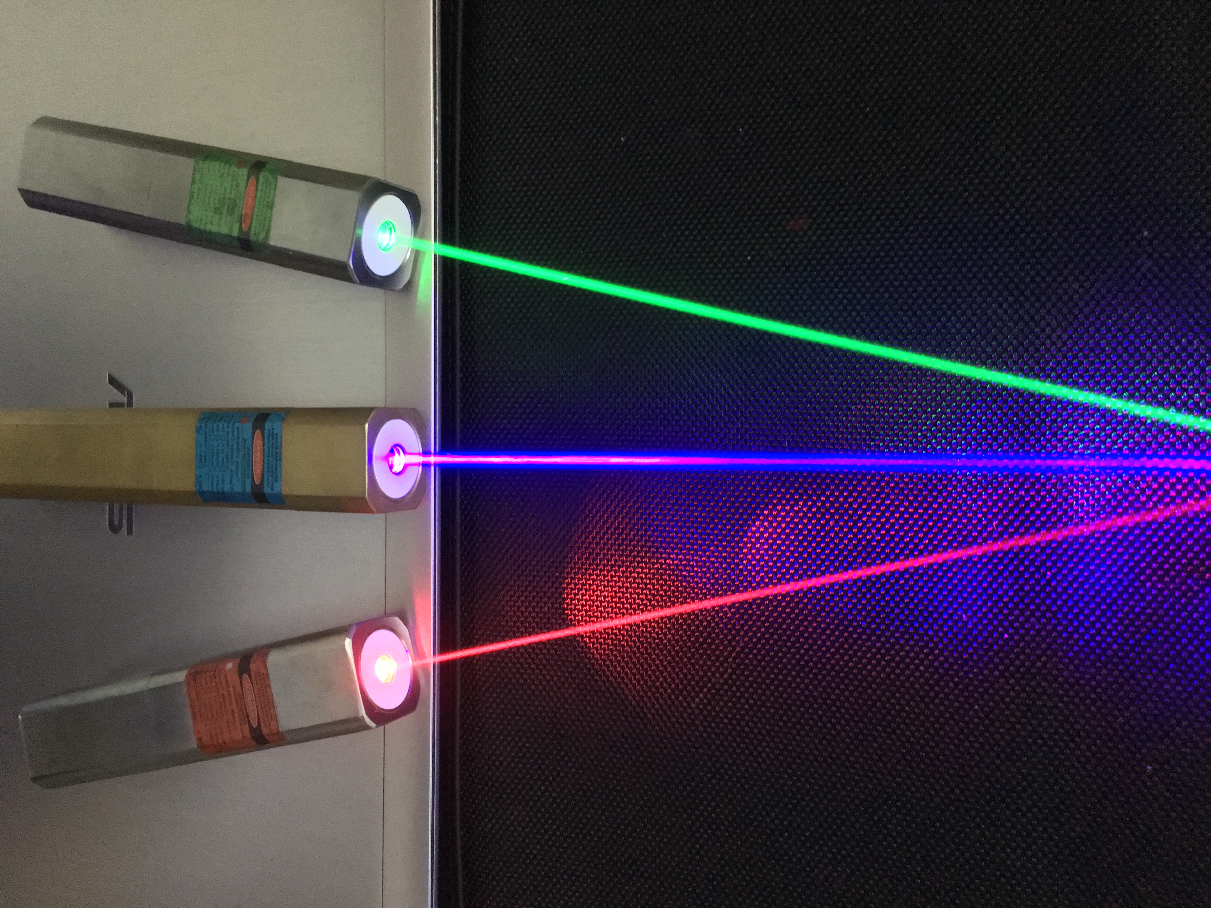 Laser pointers Red Laser 635nm Green Laser 520nm Blue Laser 445nm